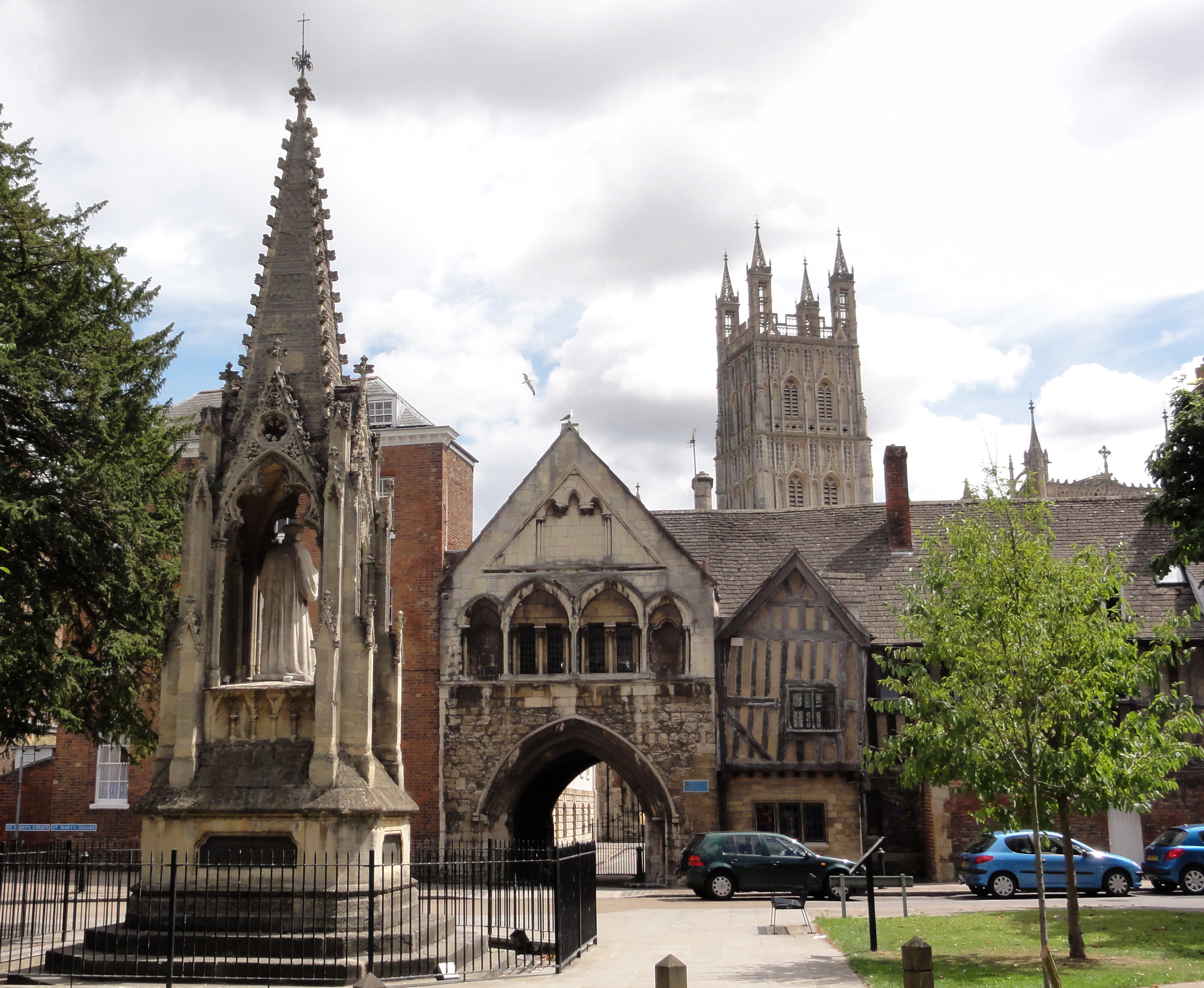 St Mary's Gate, Gloucester, towards Gloucester Cathedral with the Bishop Hoopers Monument in the foreground. Photo taken from the rear of St. Mary de Lode church.